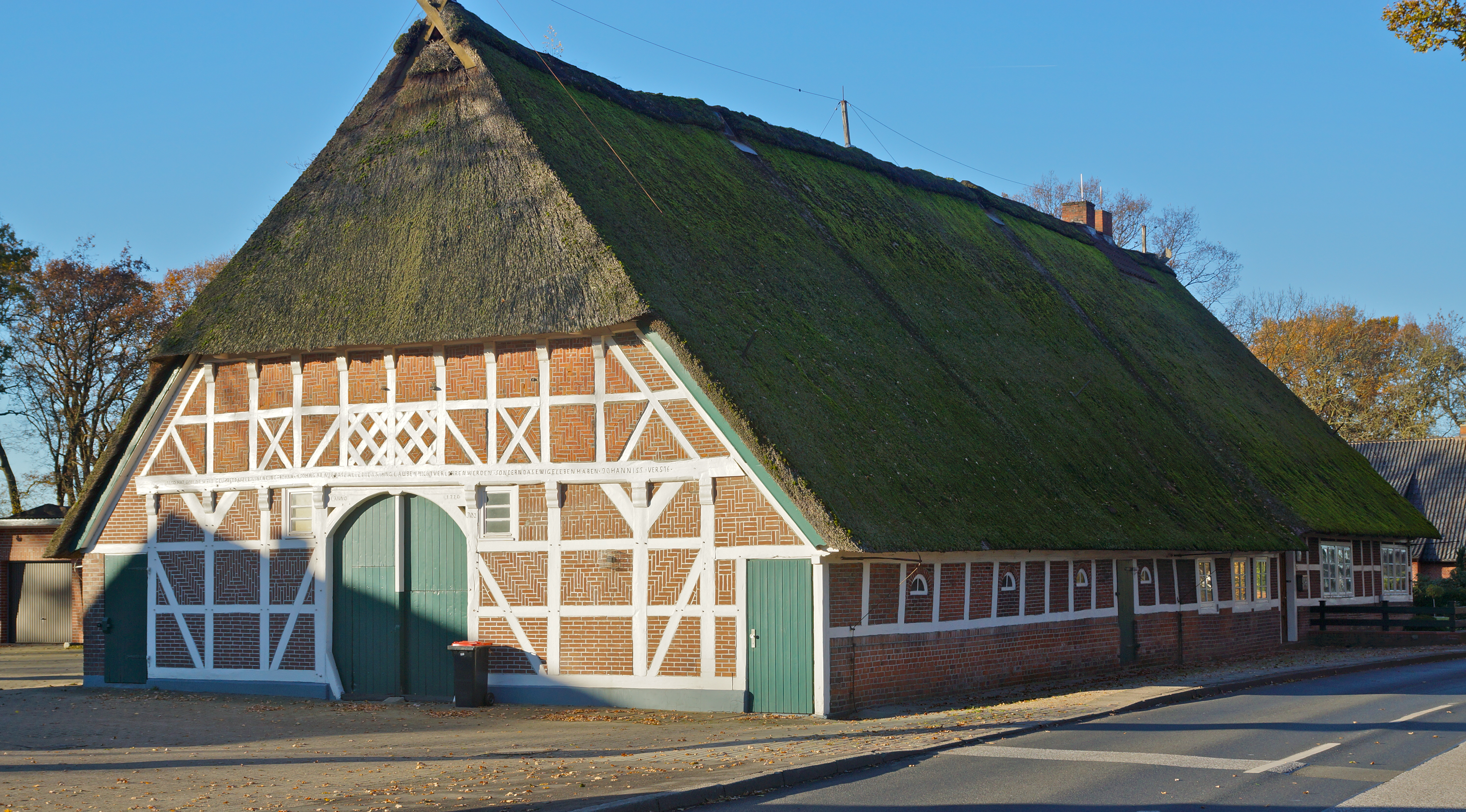 Hamburg (Neugraben-Fischbek), Germany: Timber framed house in the Francoper Street